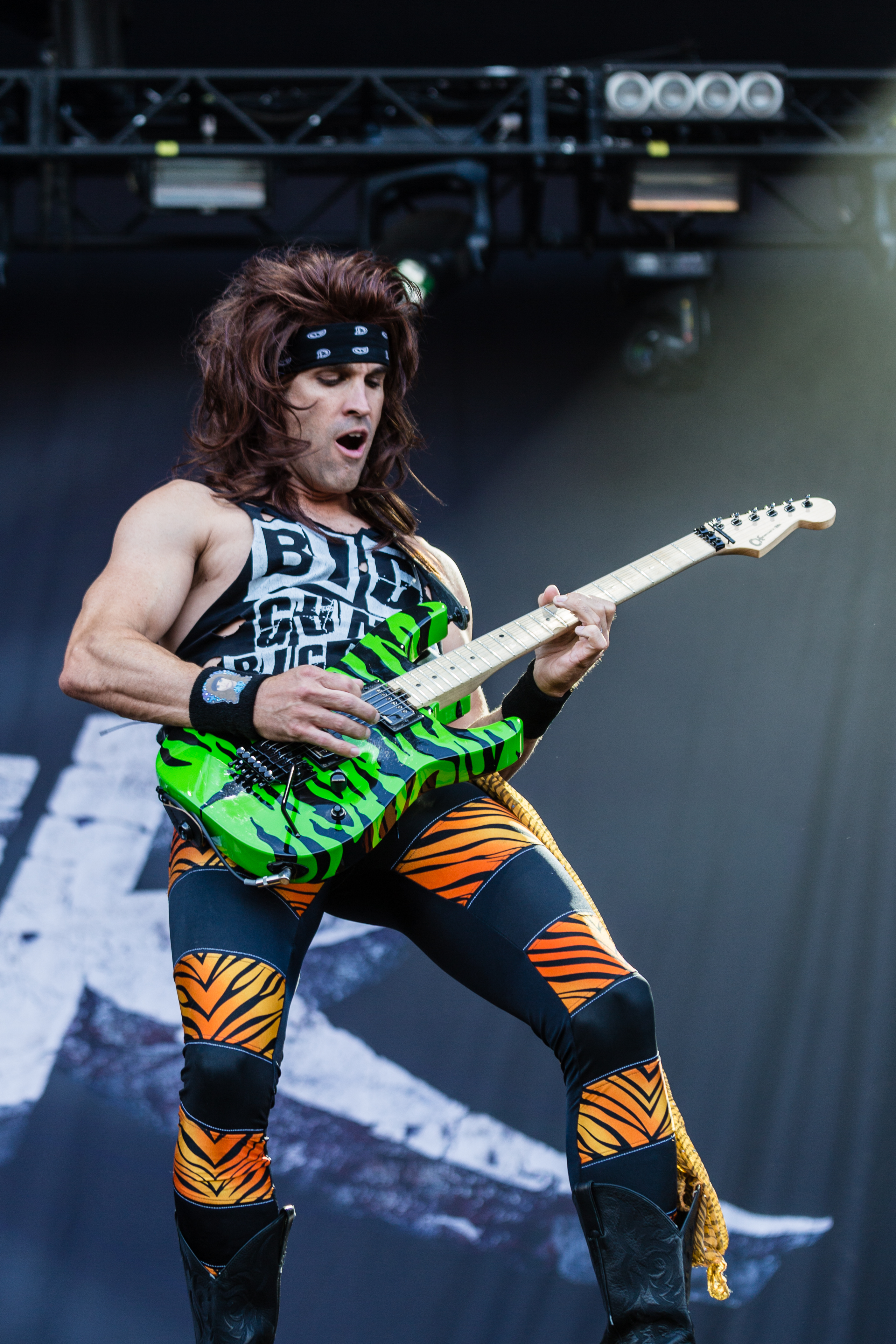 Nova Rock 2017 Satchel from Steel Panther at the Nova Rock 2017